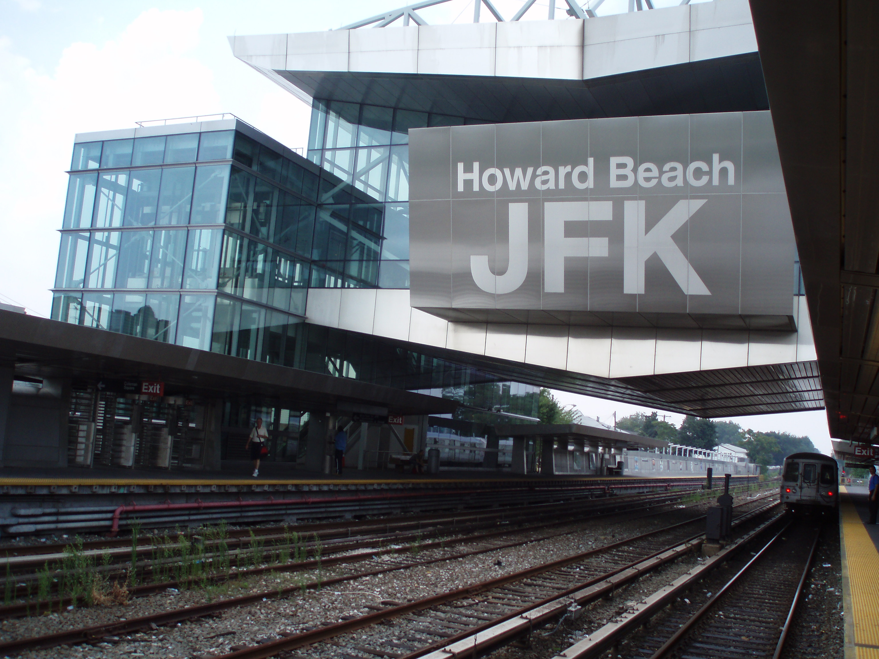 welcome to JFK via the Airtrain